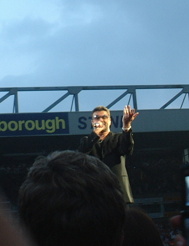 George Michael performing at Carrow Road (Norwich, UK) in 2007, for the 25 Live tour.